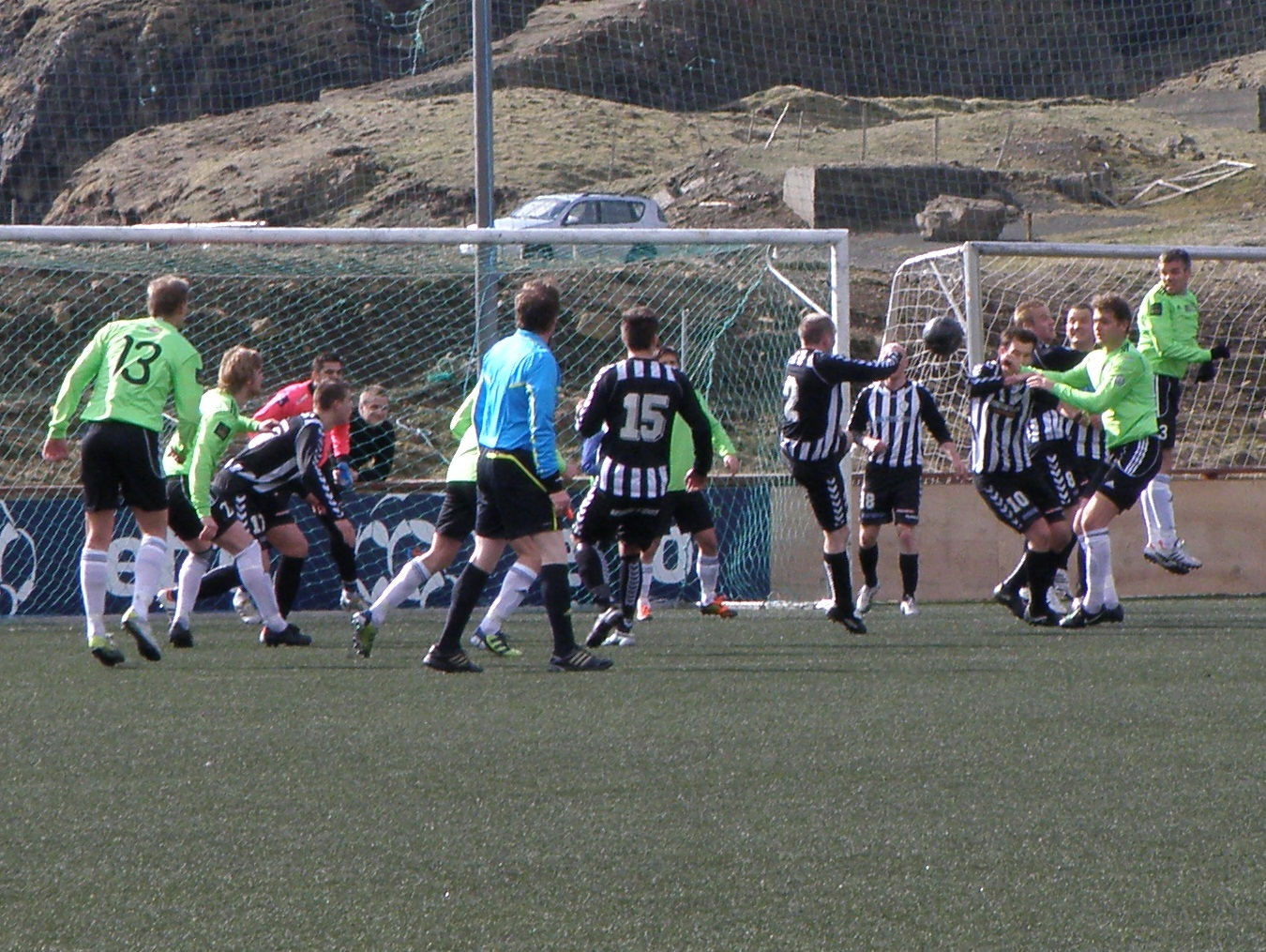 Football match in the Faroe Islands in the men's best division between the champions of 2011 B36 Tórshavn and the runners up TB Tvøroyri. B36 won the match 4-1. They are normally in white shirts, but here they are wearing their away colours. TB are in black and white stripes. Føroyskt: Fótbóltsdystur í Effodeildini 15. apríl 2012 millum TB og B36. B36 vann dystin 4-1. Dysturin varð leiktur á Eiðinum í Vági, hetta var tvær vikur áðrenn nýggi vøllurin hjá TB við Stórá varð tikin í nýtslu.